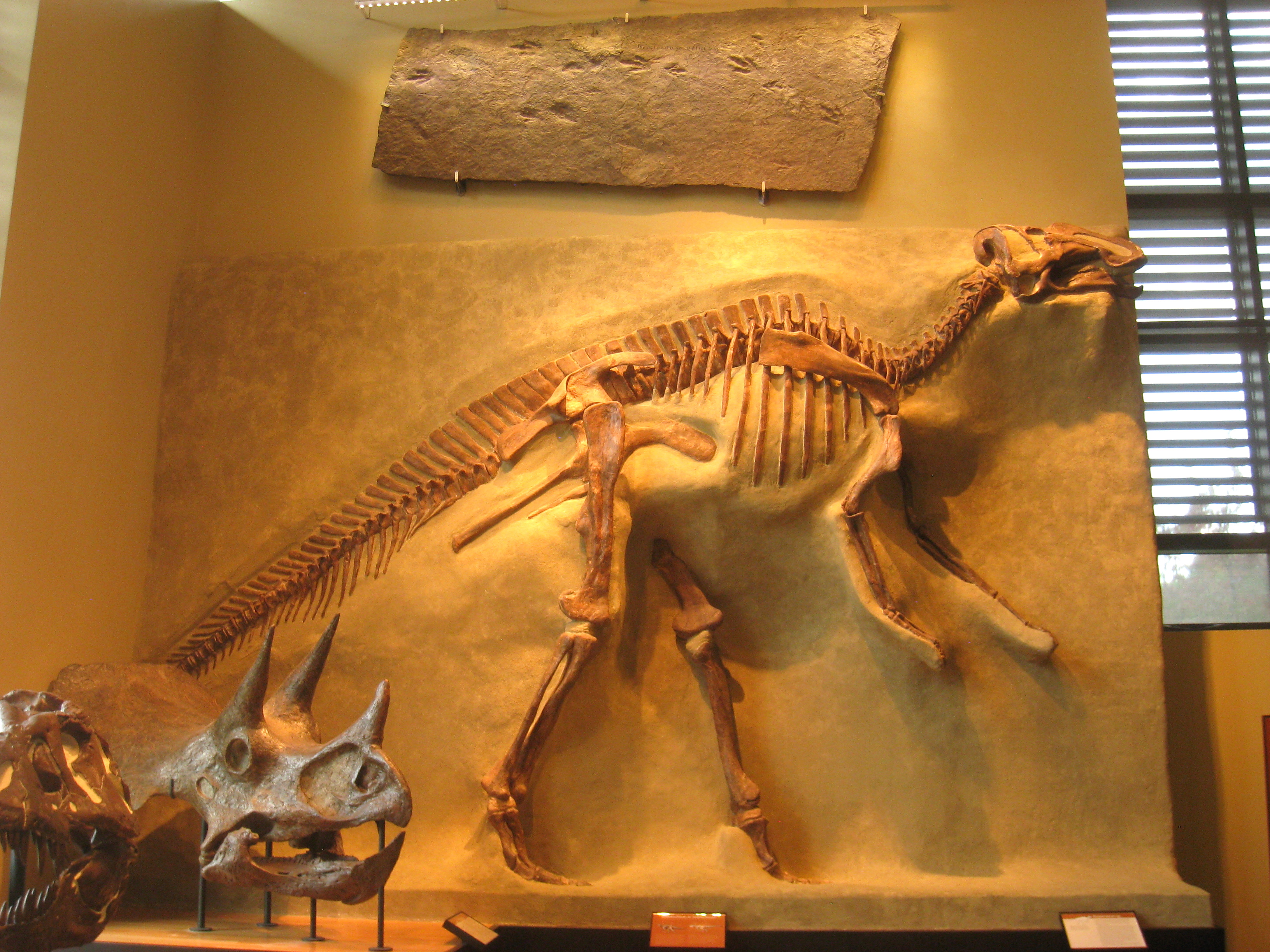 Amherst College Museum of Natural History, Amherst, Massachusetts, USA.